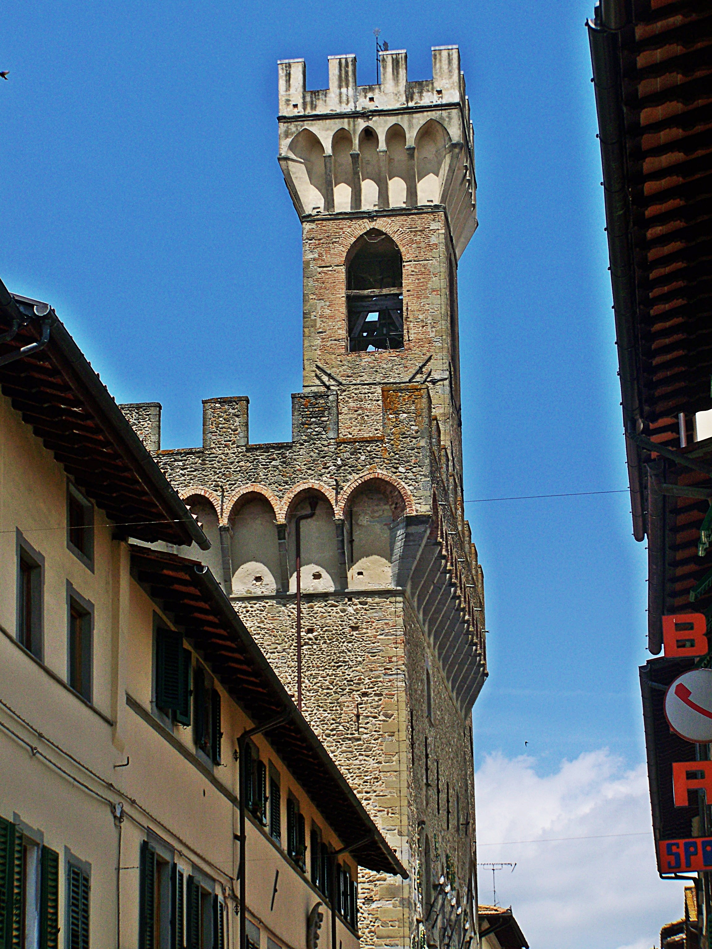 Palace of the Vicar from Roma Street